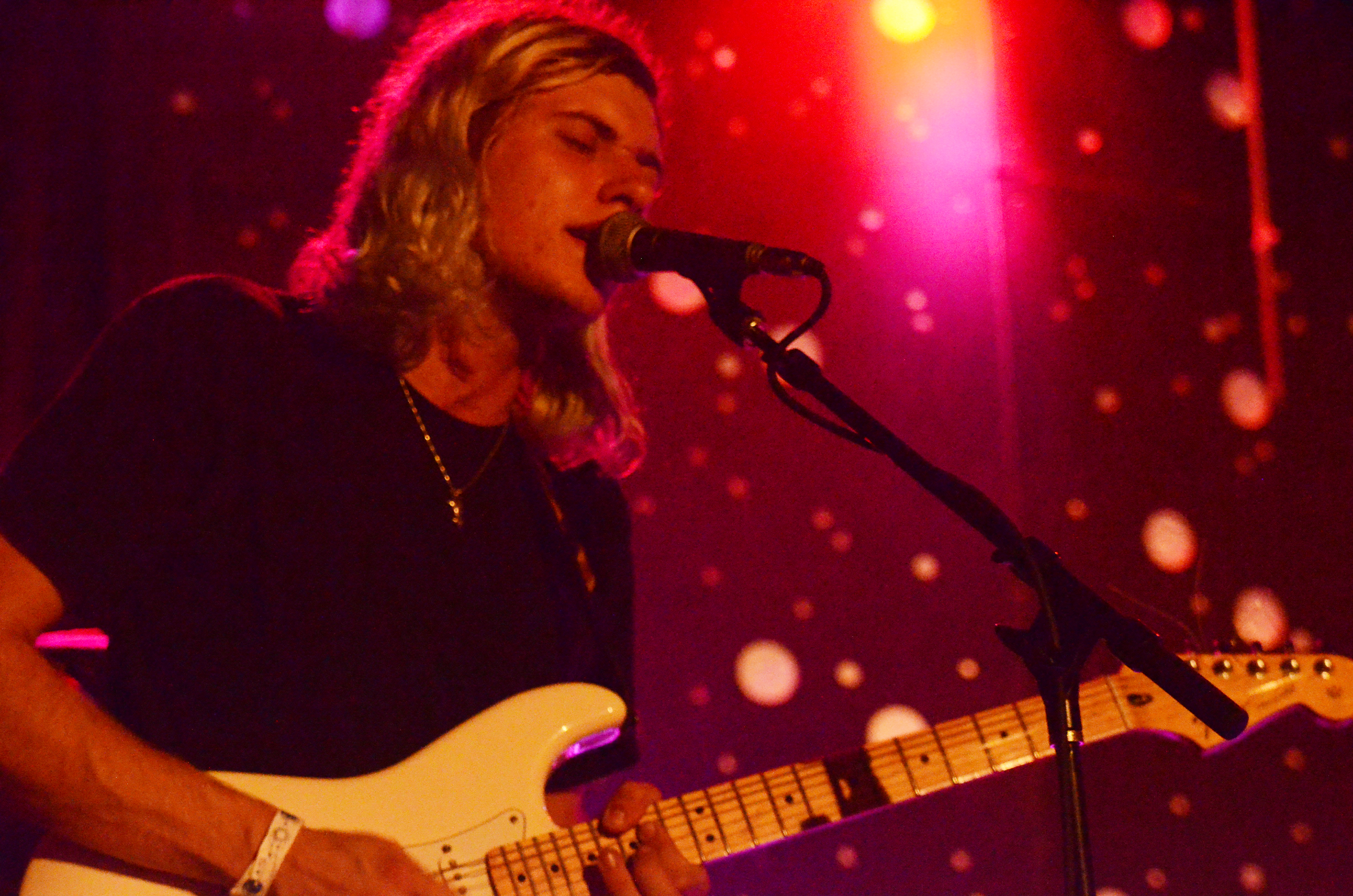 Live at the Pinhook